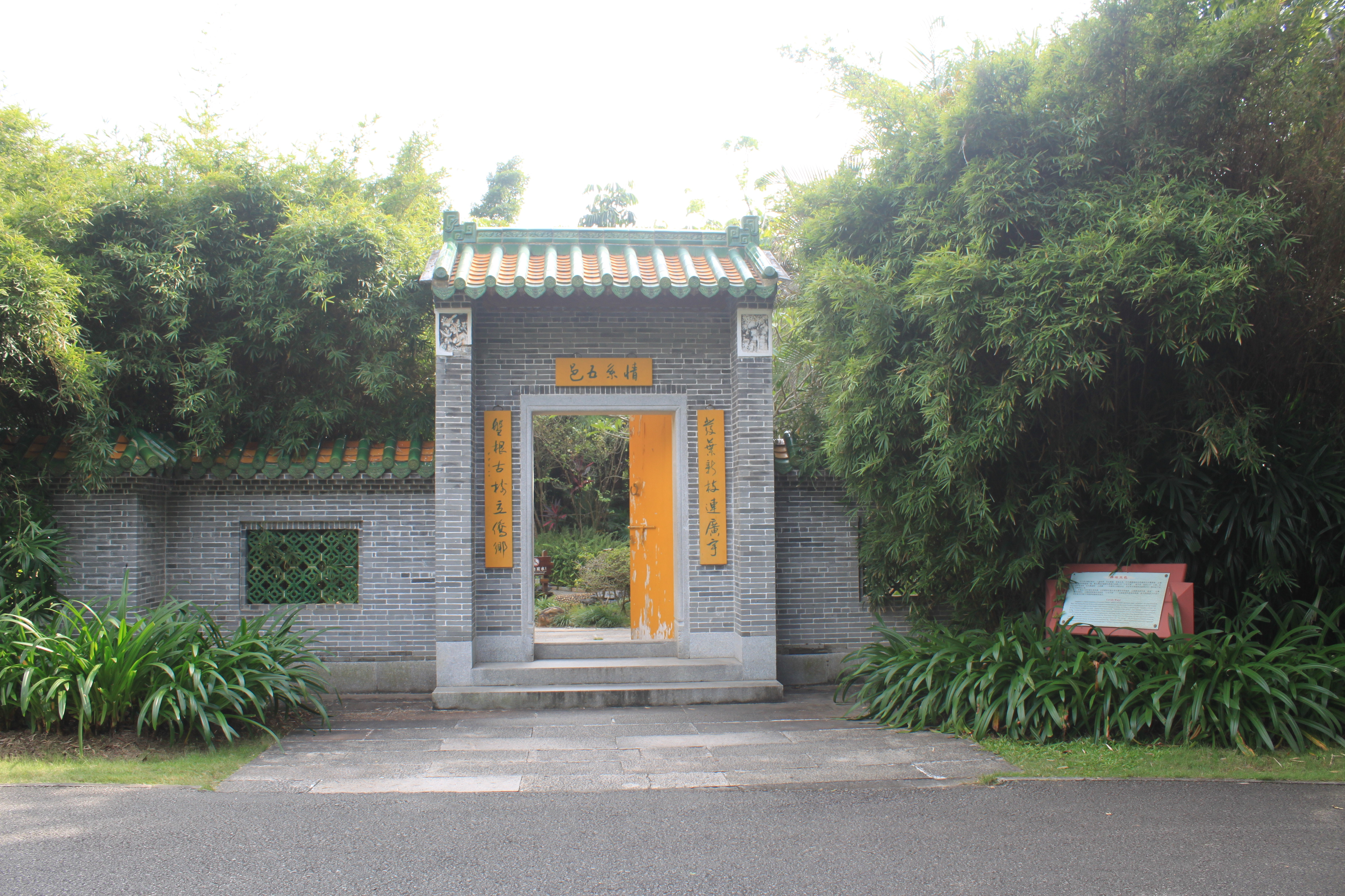 Lovely Wuyi of Shenzhen International Garden and Flower Expo Park. 中文（中国大陆）: 深圳园博园“情浓五邑”景观。